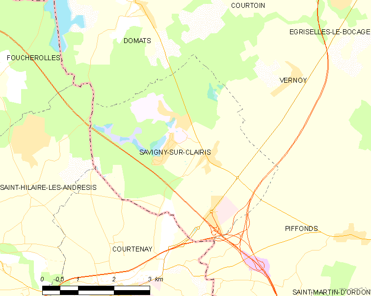 Map of French municipality Savigny-sur-Clairis